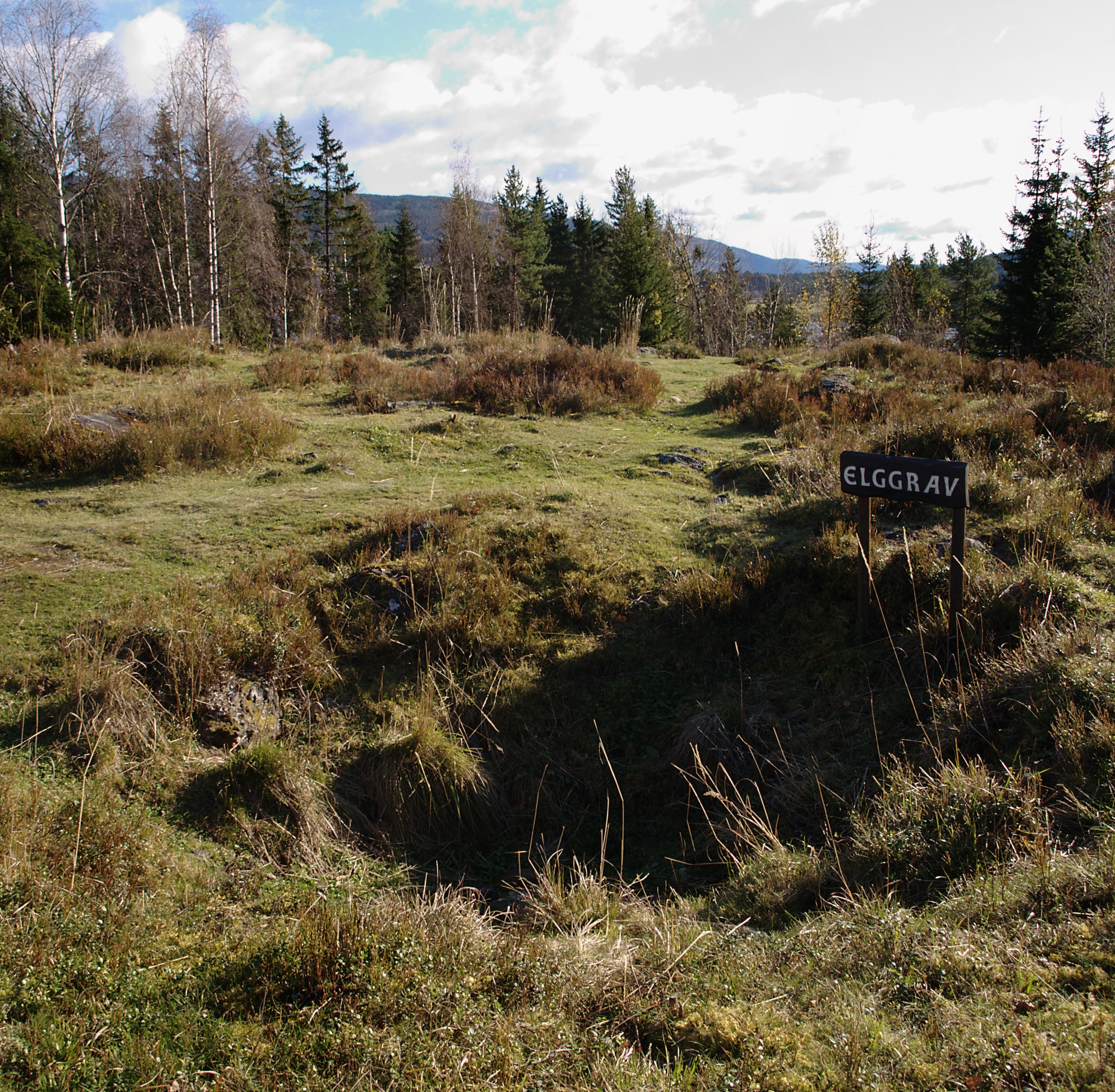 Remains of an elk pit at Valdres Folkemuseum on Storøya outside Fagernes in Nord-Aurdal.[1]